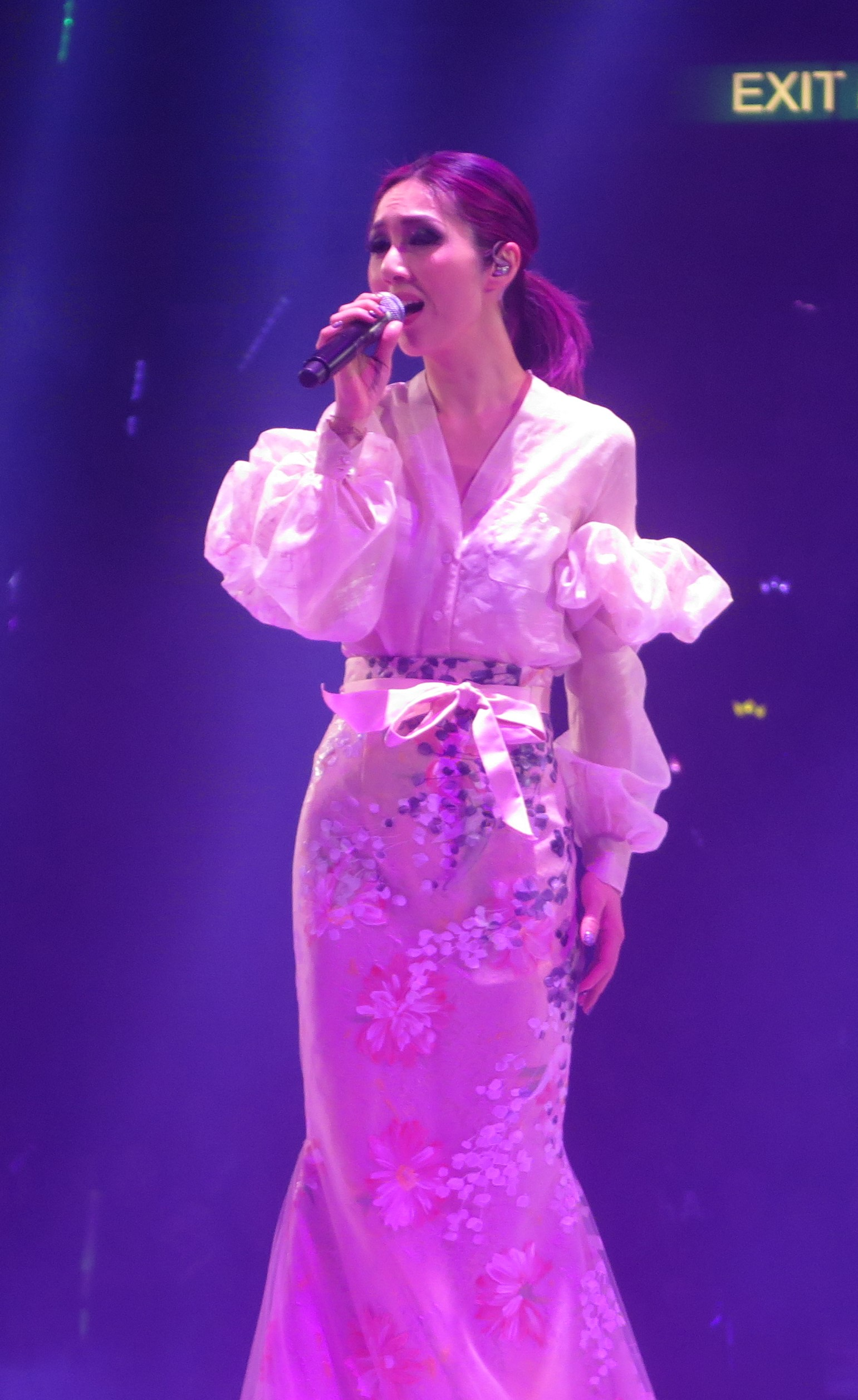 Miriam Yeung Let's Begin Live 2015